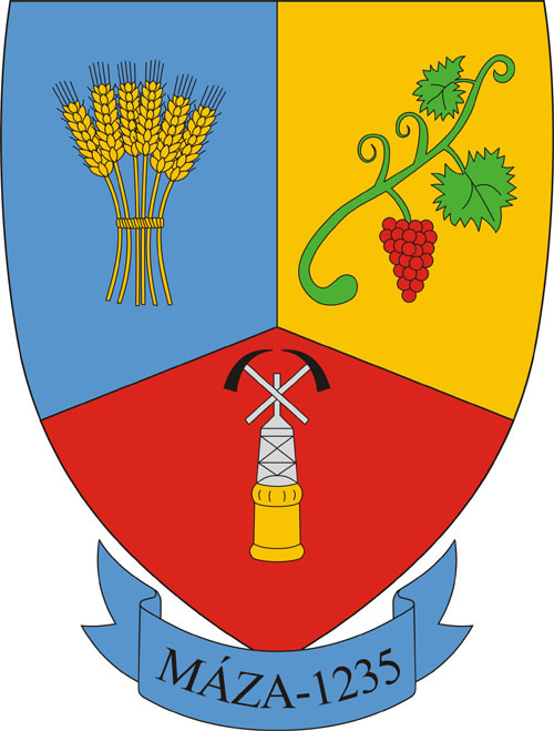 Coat of arms of Máza, Hungary